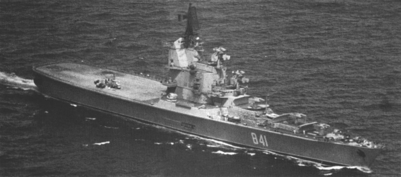 The Soviet helicopter carrier Moskva, circa in the early 1970s.